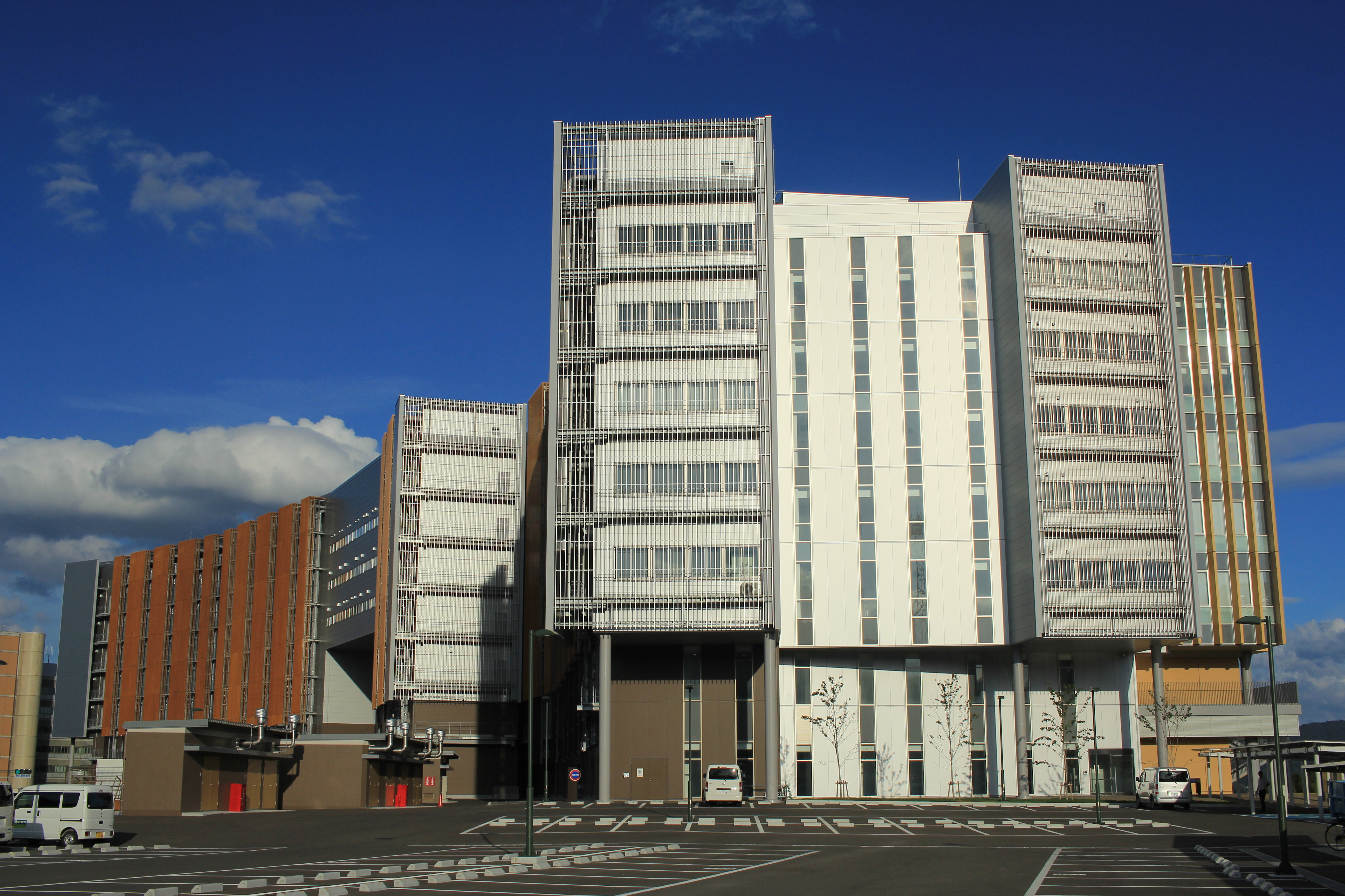 West Zone 5, Ito Campus, Kyushu University Canon EOS 60D